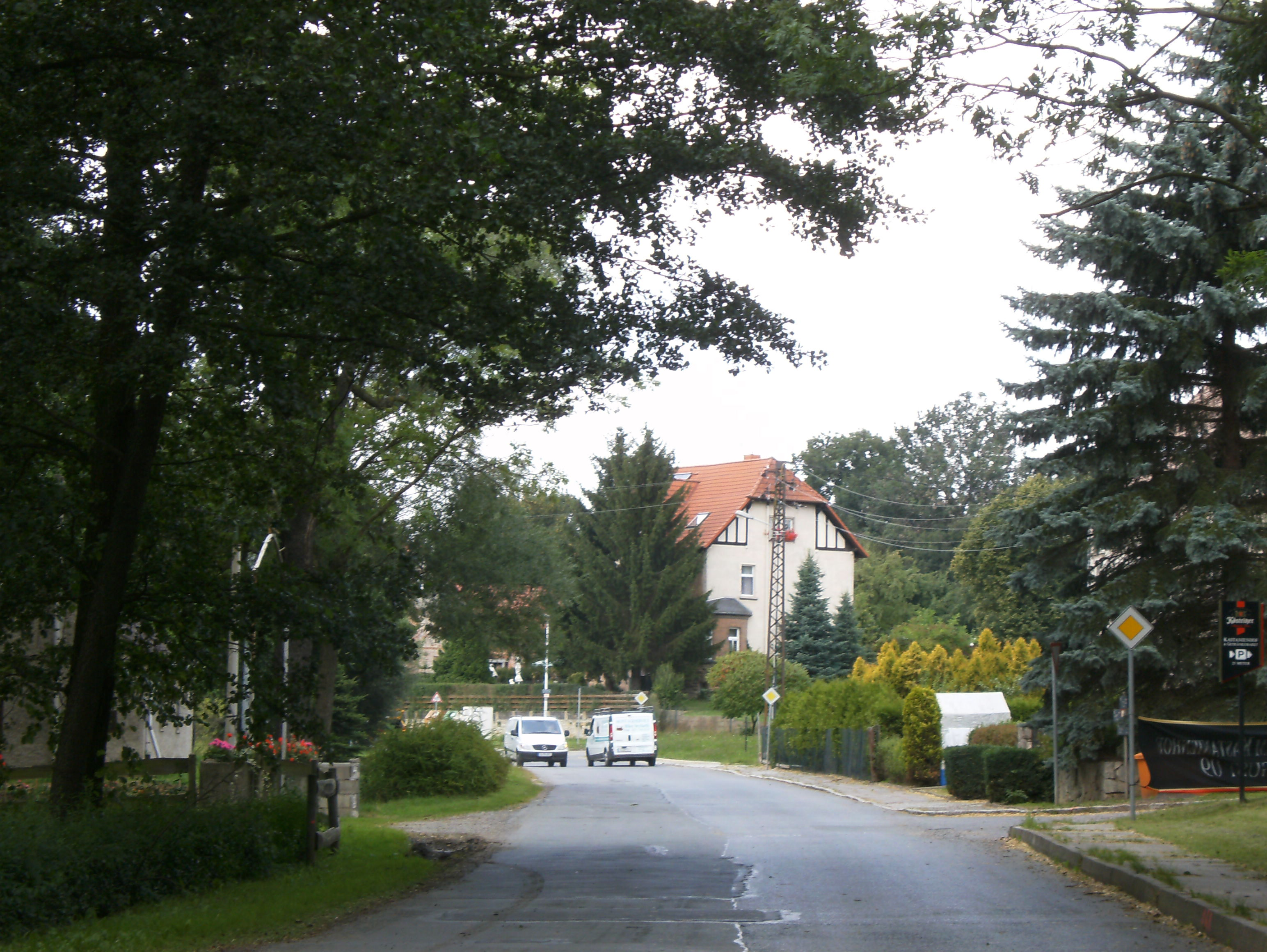 Gera Cretzschwitz, village view